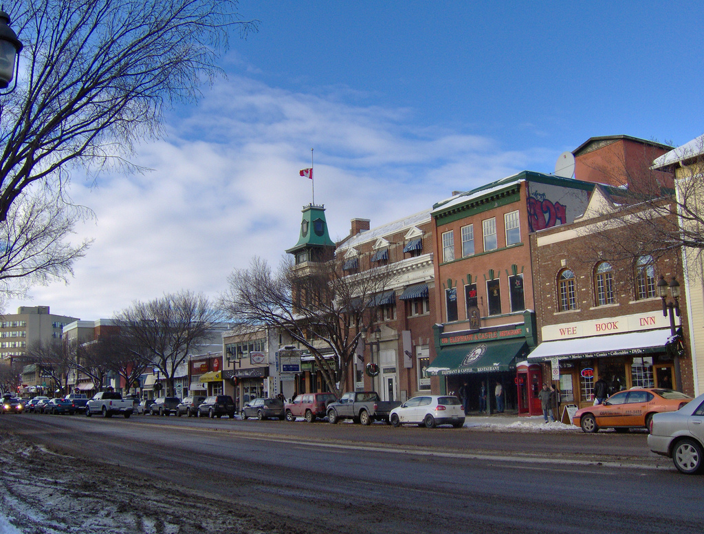 Whyte Avenue in Edmonton.